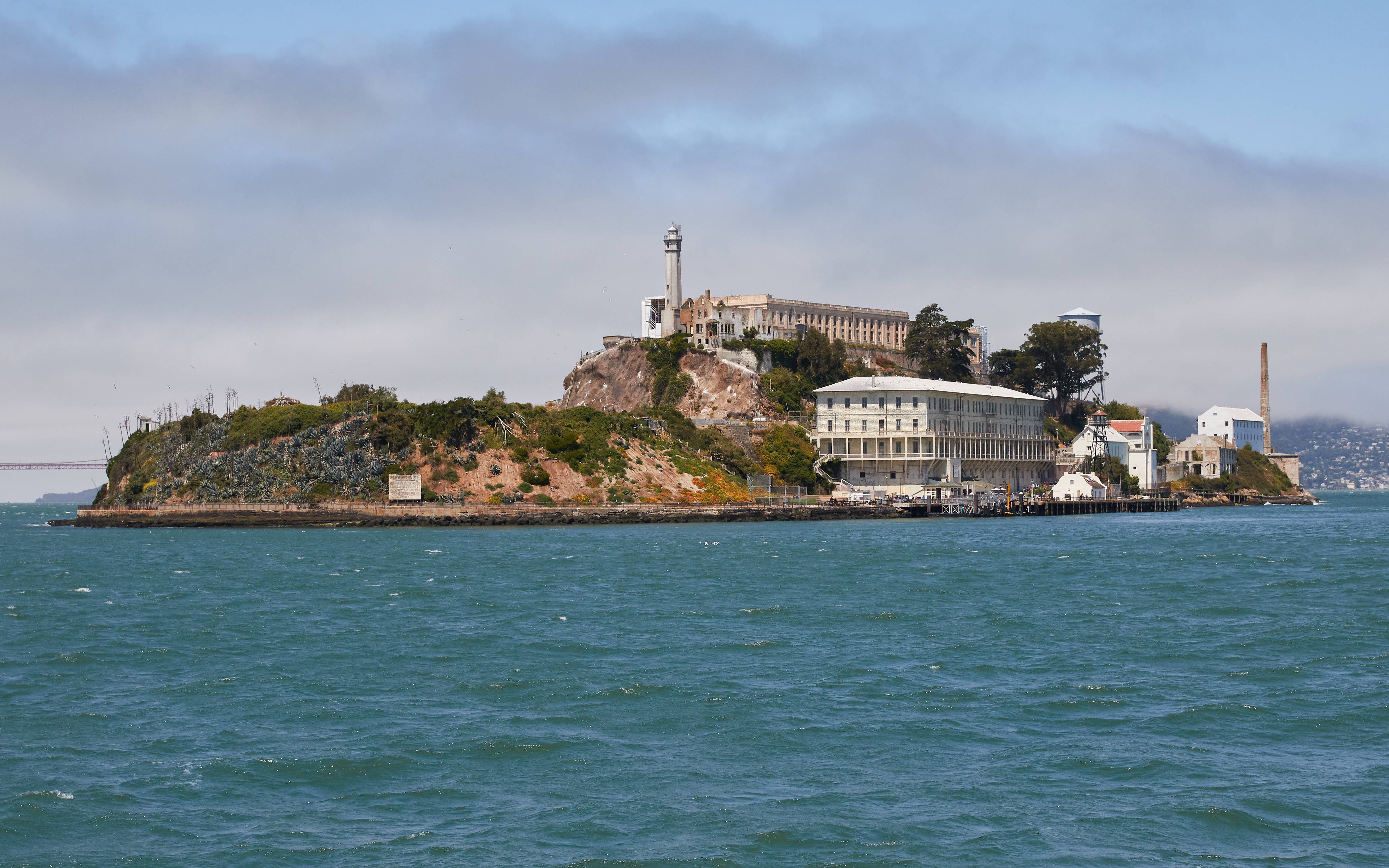 Alcatraz Island as seen from the East. The small island in the San Francisco Bay was developed with facilities for a lighthouse, a military fortification, and a prison. It received designation as a National Historic Landmark in 1986.